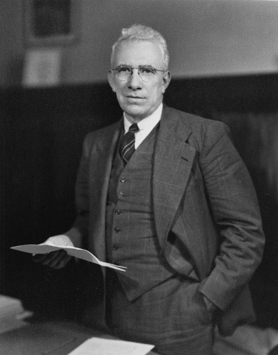 Former United States Senator George Aiken of Vermont.